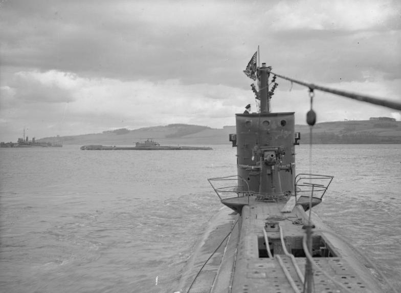 IWM caption : HMSM TRUSTY (left) passing HMSM SIBYL as the latter nears port at Dundee after one of the war's longest commisions lasting twenty months. She was commanded by Lieutenant E J D Turner, DSO, DSC, RN.